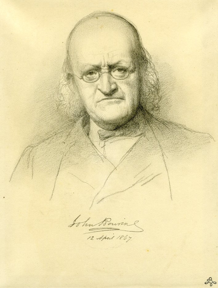 Portrait of Sir John Bowring